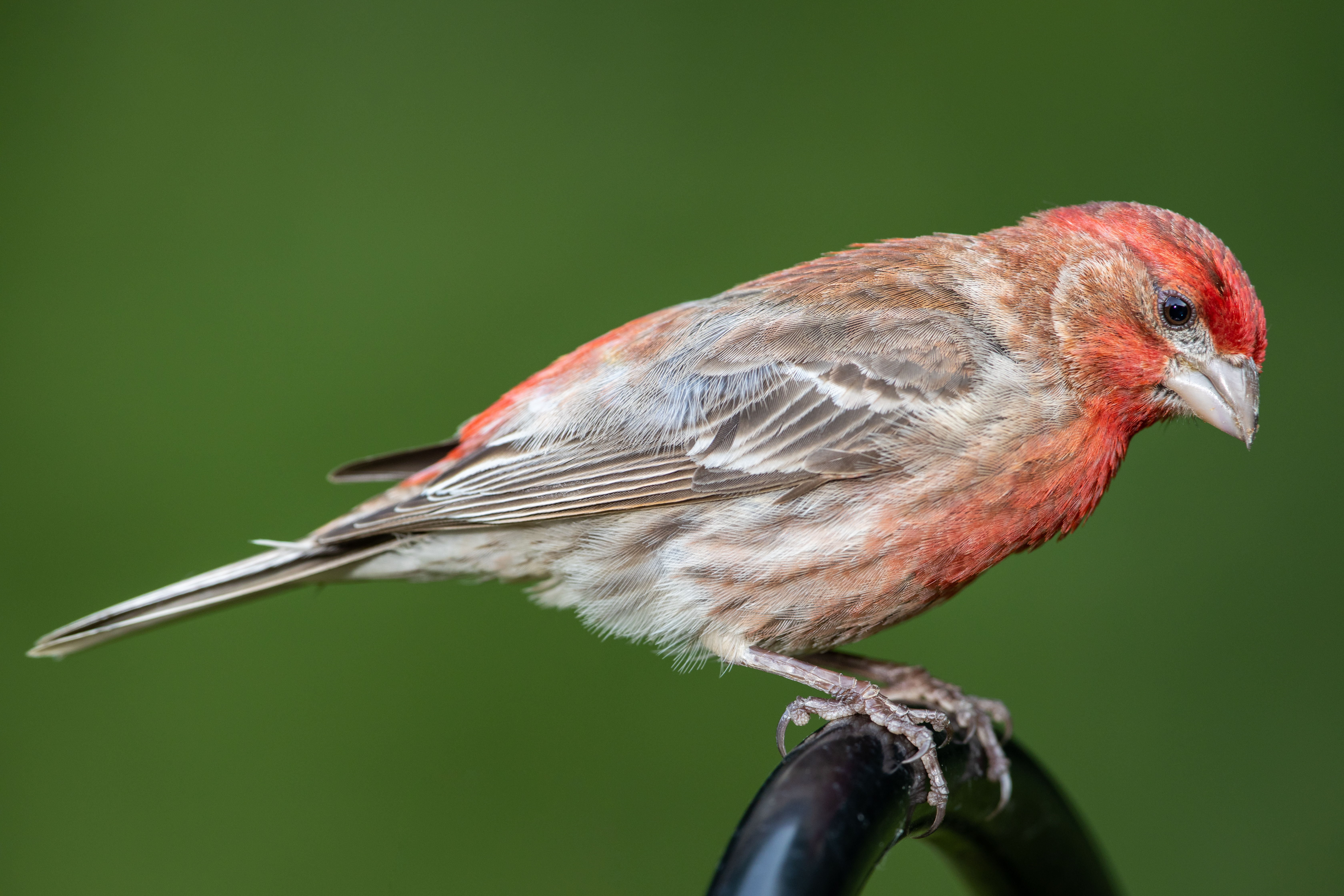 House Finch (male) shot in Franklin, TN